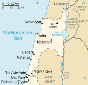 Nazareth on the map of Israel